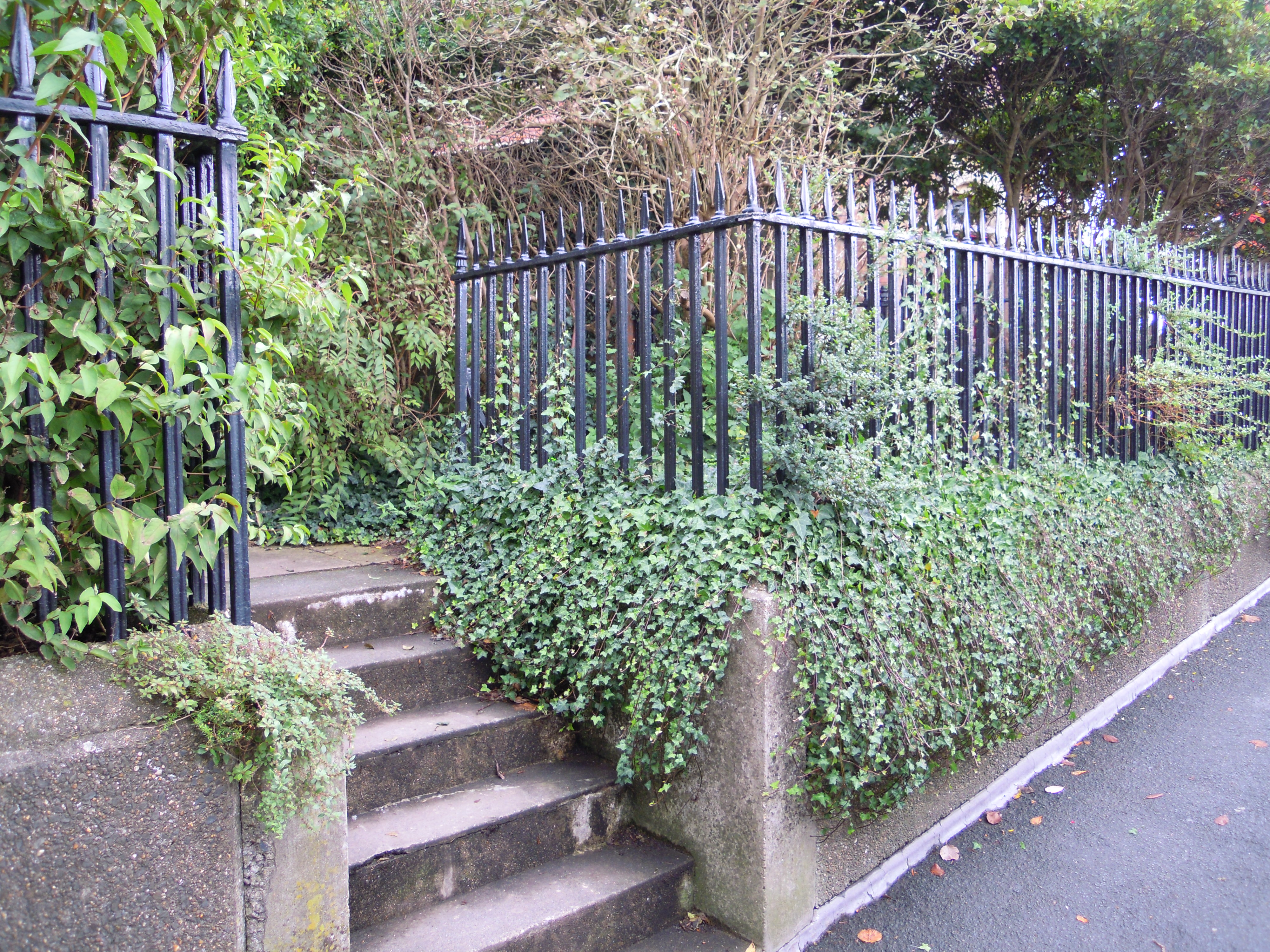 Museum Of North Devon Including Garden Railings Adjacent To River Front Wikidata has entry Q26665146 with data related to this item.